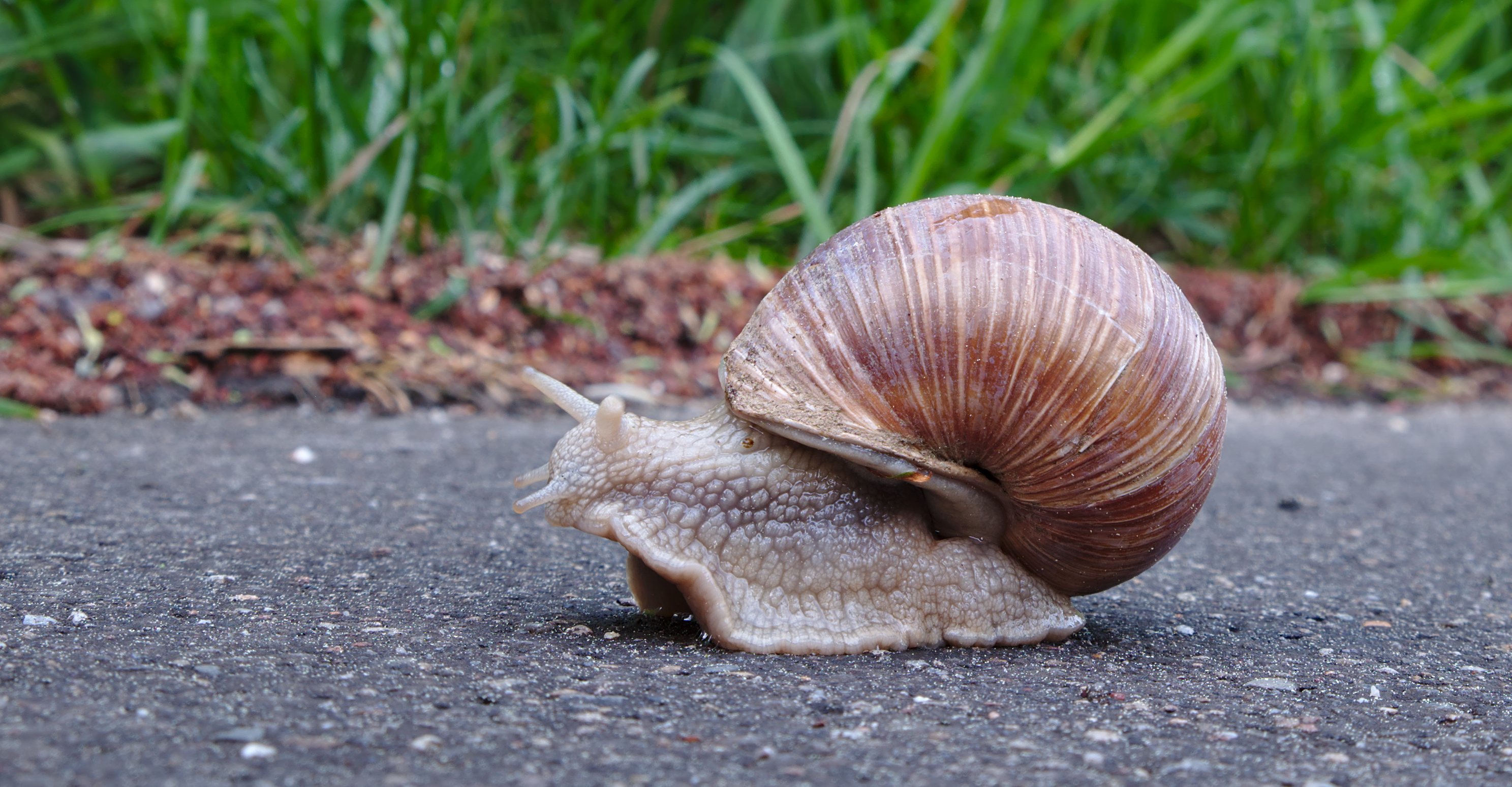 Helix pomatia moving downhill on the Vennbahn bicycle trail. It is yet unclear whether this part of the Vennbahn is in Belgian or German territory.